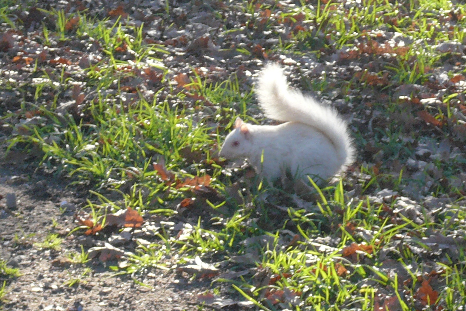 Albino Squirrel. Cape Town, South Africa.